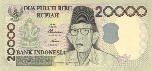 Indonesian currency issued 1998-2005.